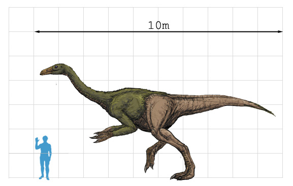 Hypothetical restoration of Deinocheirus mirificus, based on a skeletal diagram by Luis V. Rey.